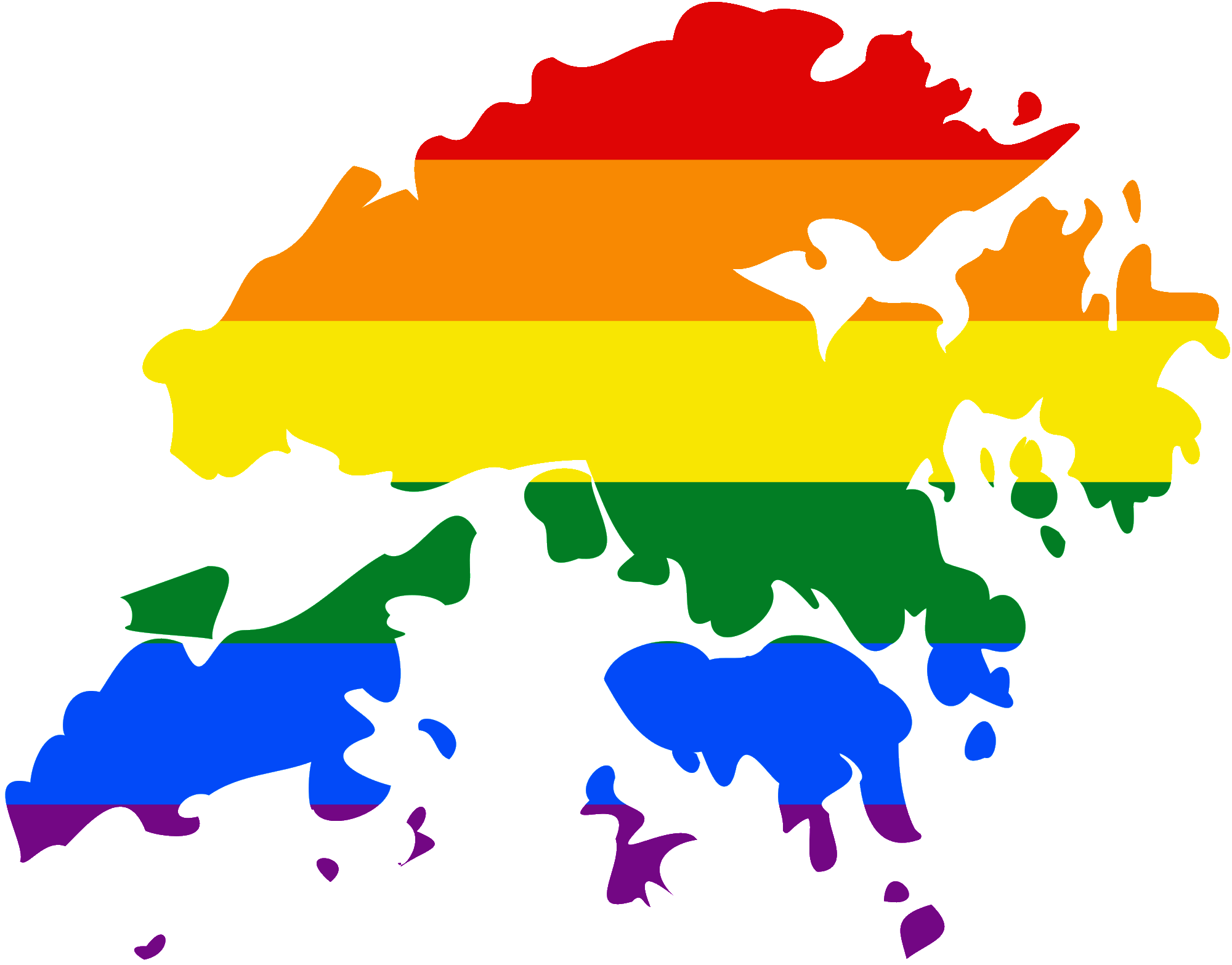 LGBT Flag map of Hong Kong